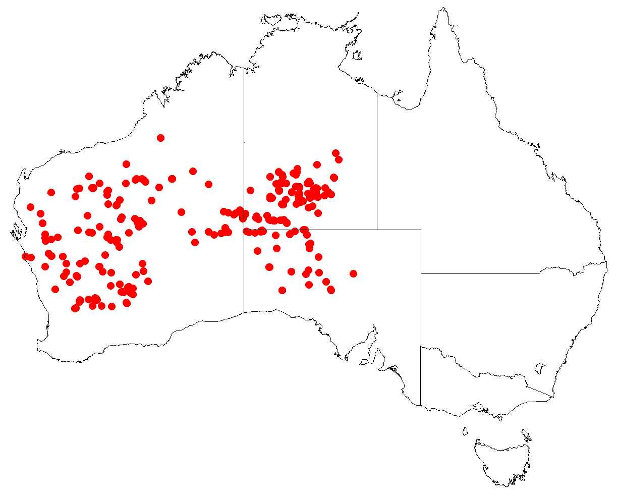 Australian distribution of Amyema gibberula based on download from Australasian Virtual Herbarium May 9, 2018